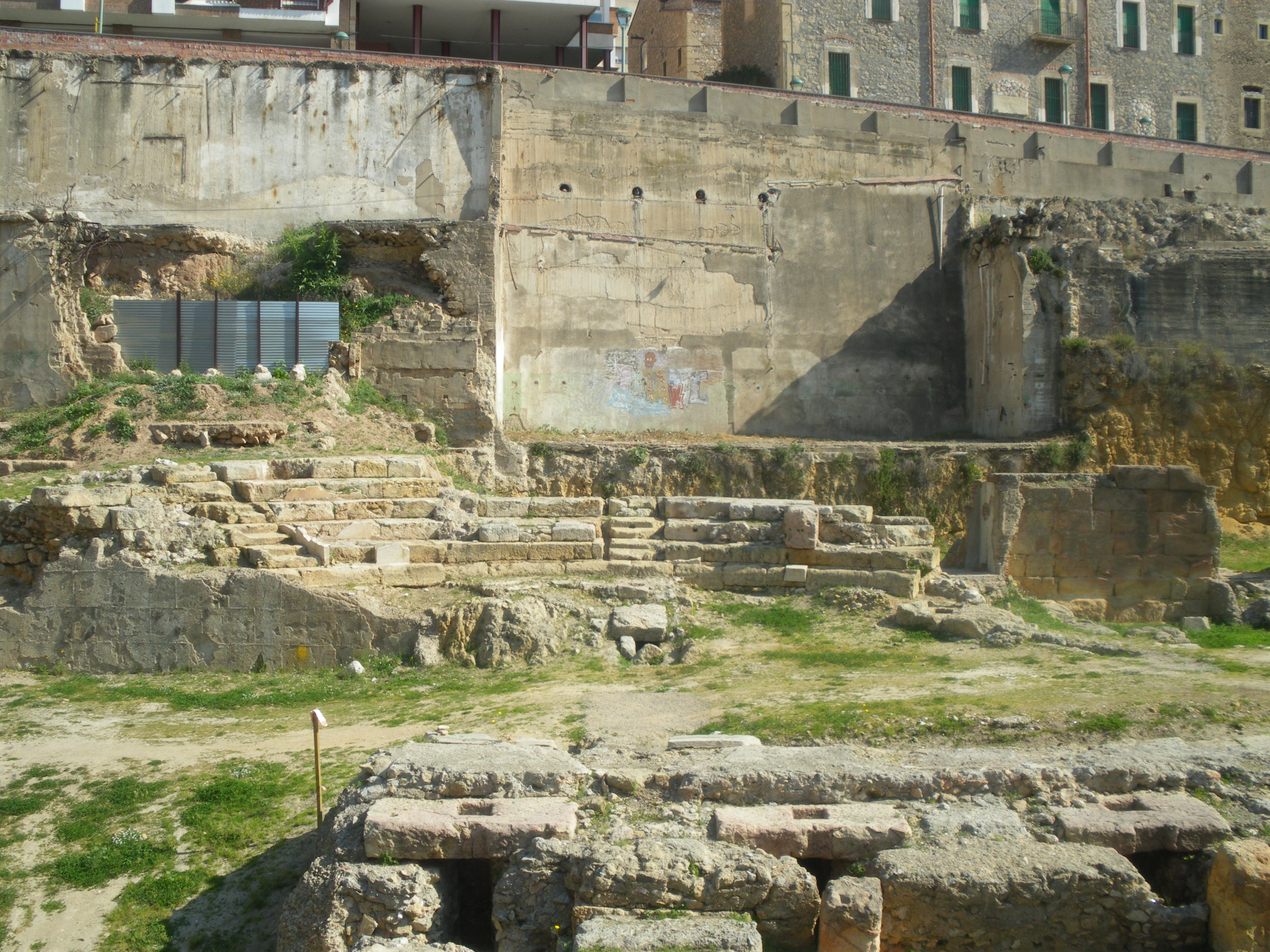 Sight of the steps in the Roman theatre of Tarragona.